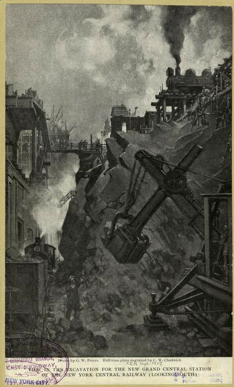 View in the excavation for the new Grand Central Station of the New York Central Railway (Looking south).